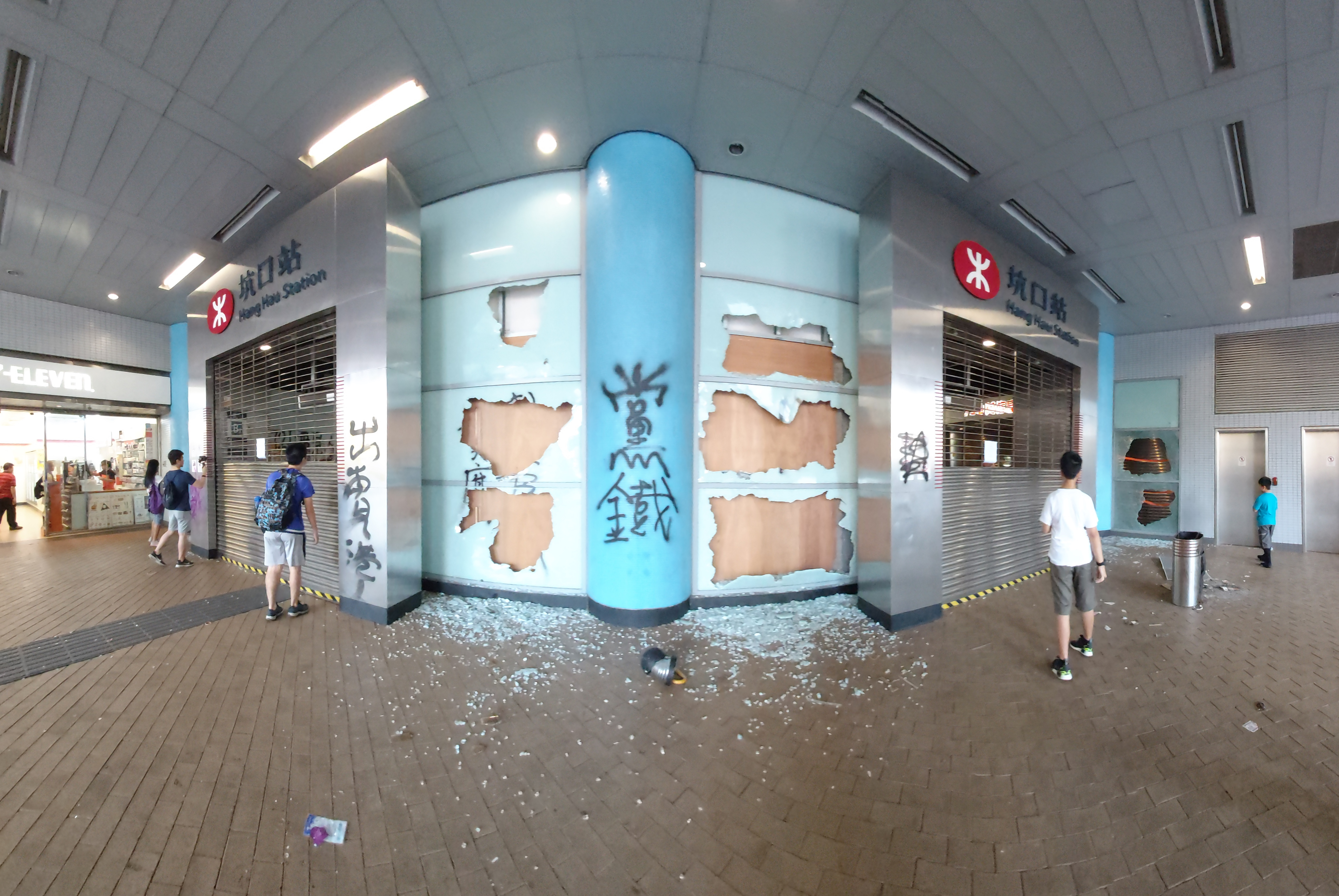 Dozens of MTR stations were vandalized and forced to close during Anti-Emergency Ordinance in early October 2019. For Hang Hau station, glass were smashed and wall were graffitied with "CCP's Railway", which denounced MTR for allegedly supporting Chinese Communist Party.